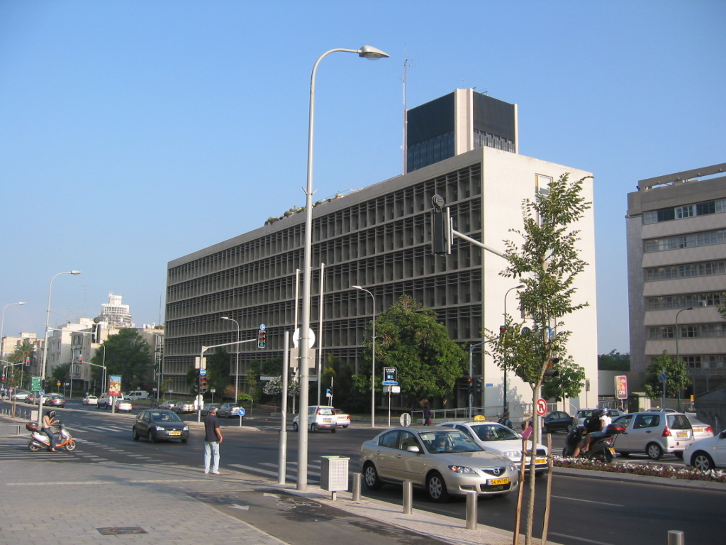 Jewish Agency for Israel Building, Kaplan Street, Tel Aviv-Yaffo